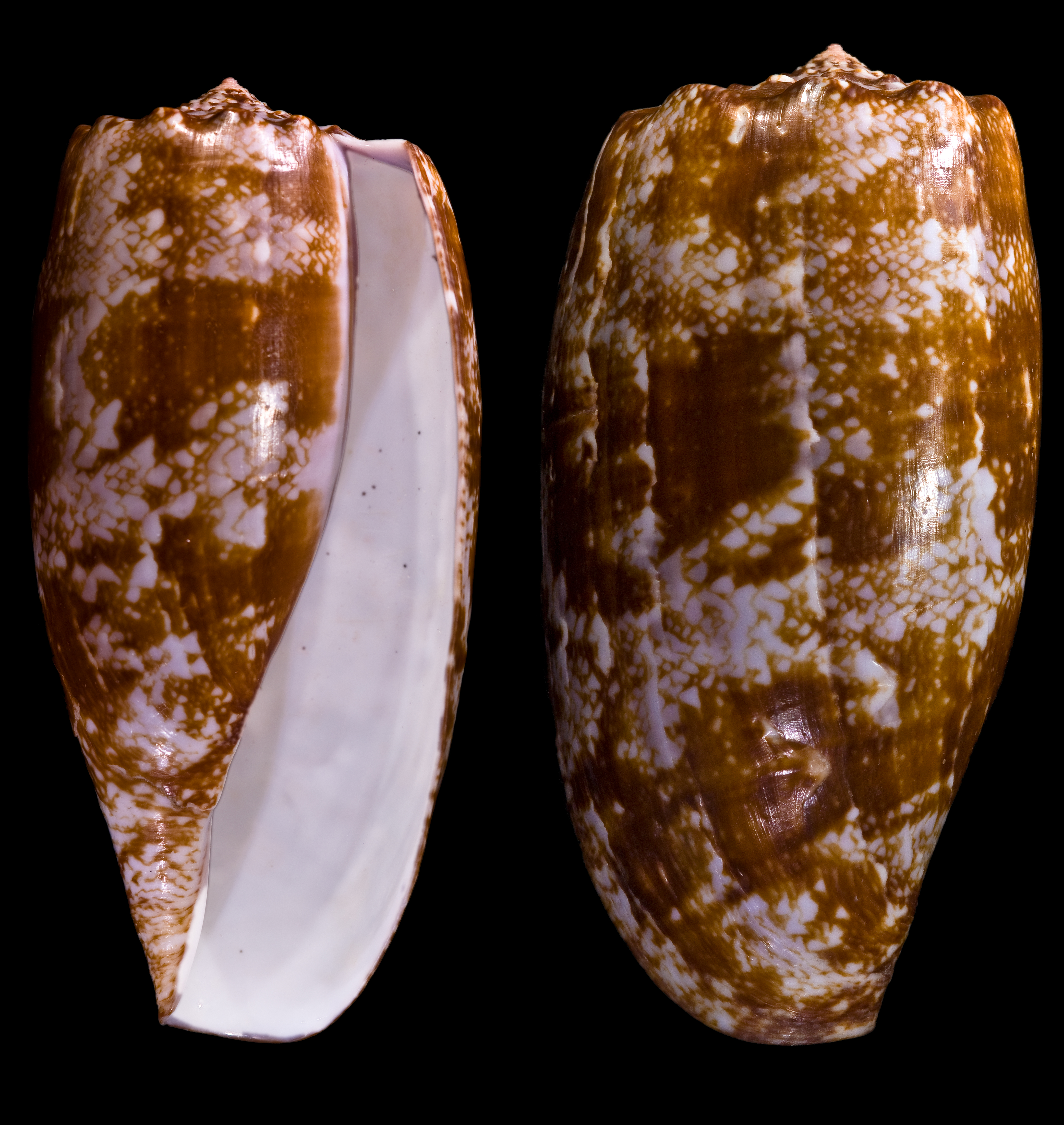 Conus geographus - Conidae - 9cm